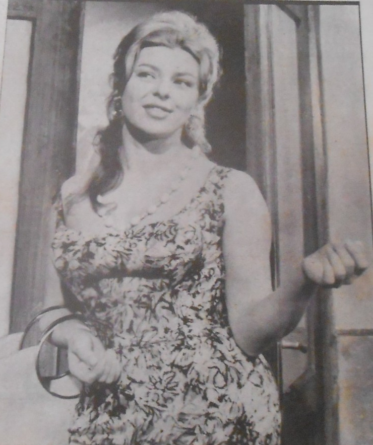 Sonja Hlebs, Ilustrovana politika